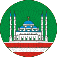 Grozny (Chechnya), coat of arms